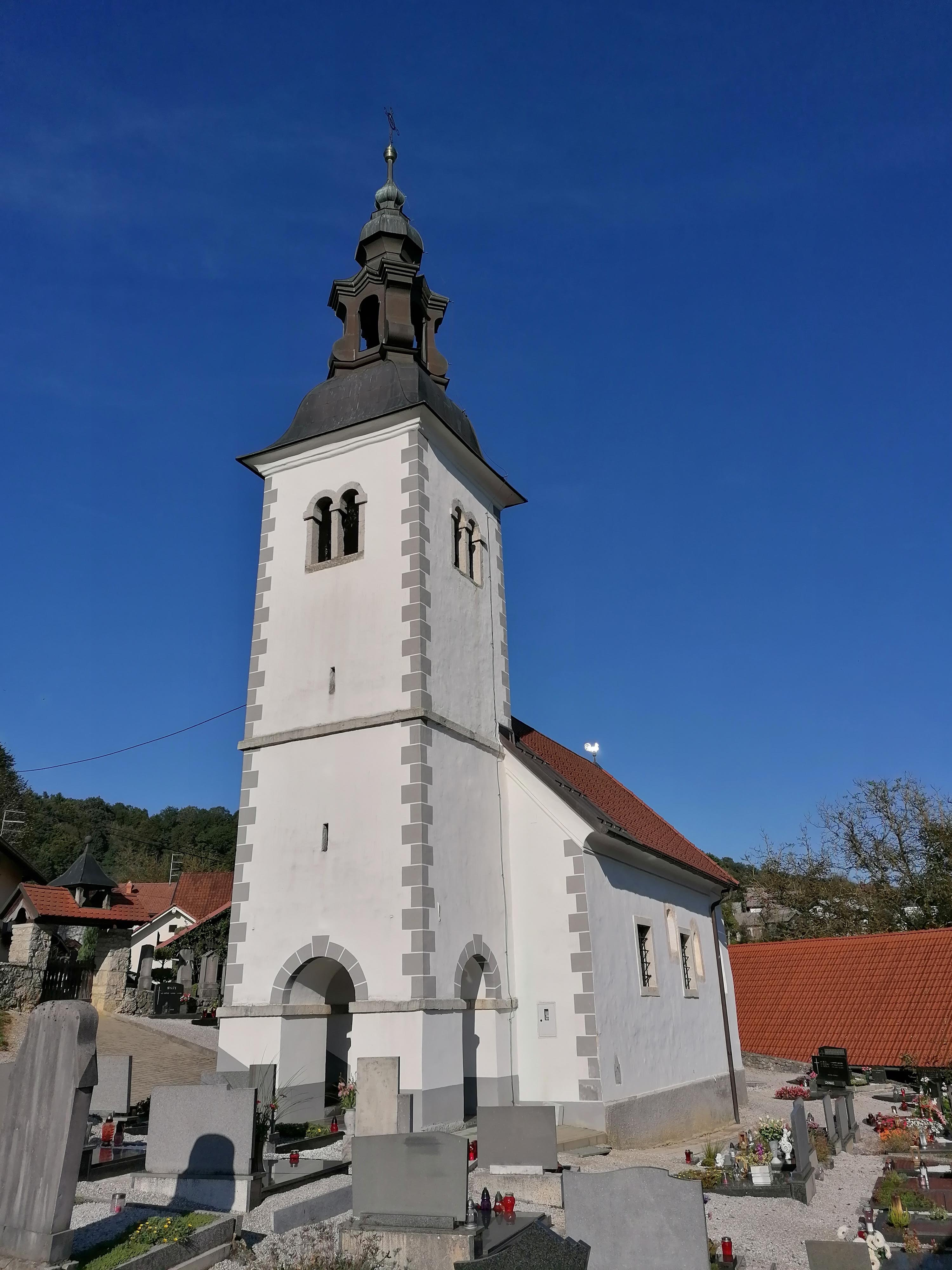 church